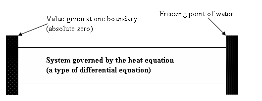 Showing the boundary value problem for a rod (idealized as 2d)